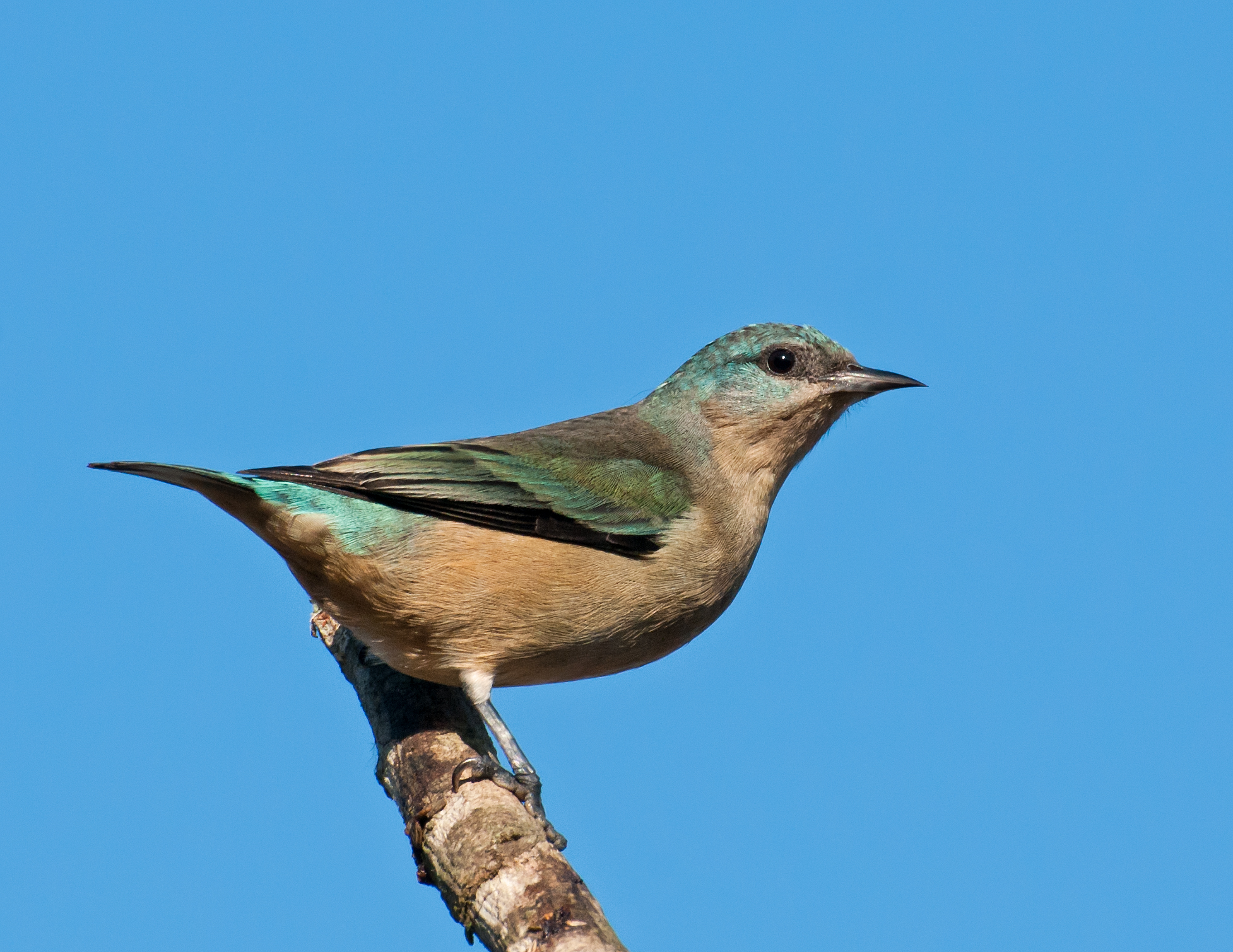 A female Black-legged Dacnis in Vale do Ribeira, Juquiá, São Paulo, Brazil.